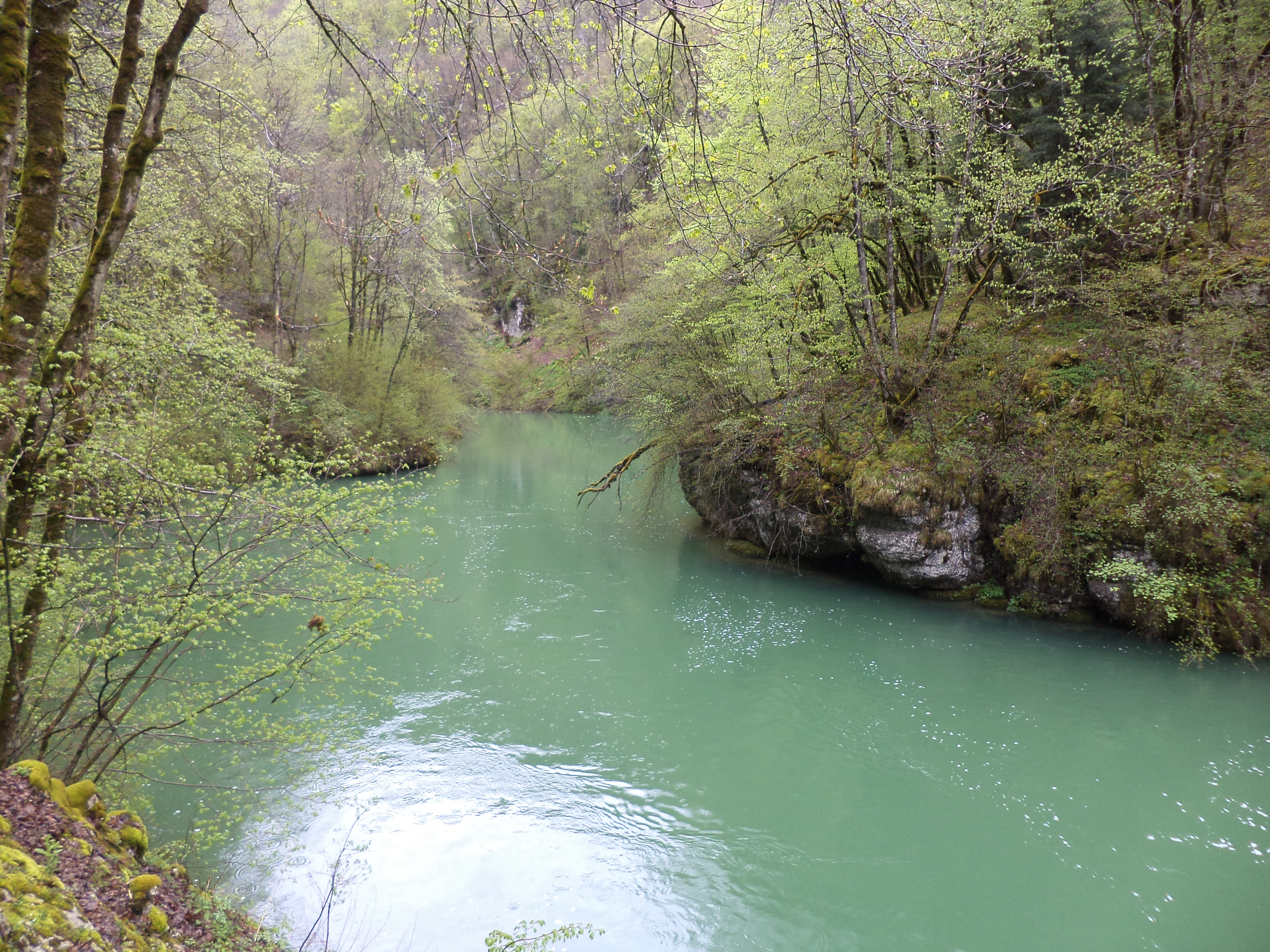 The Loue river approximately 150 metres below its source